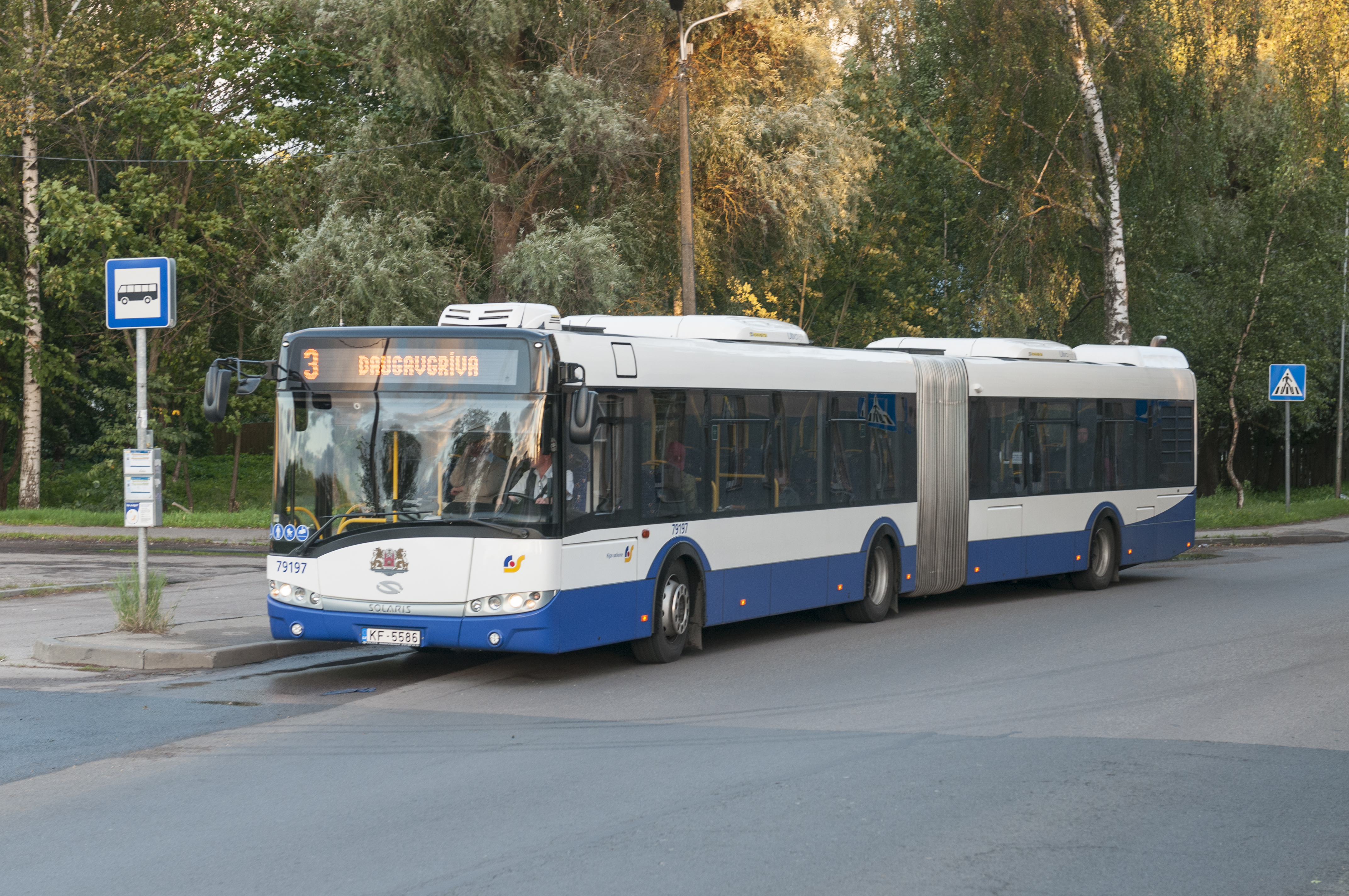 Daugavgrīva, Riga, Latvia